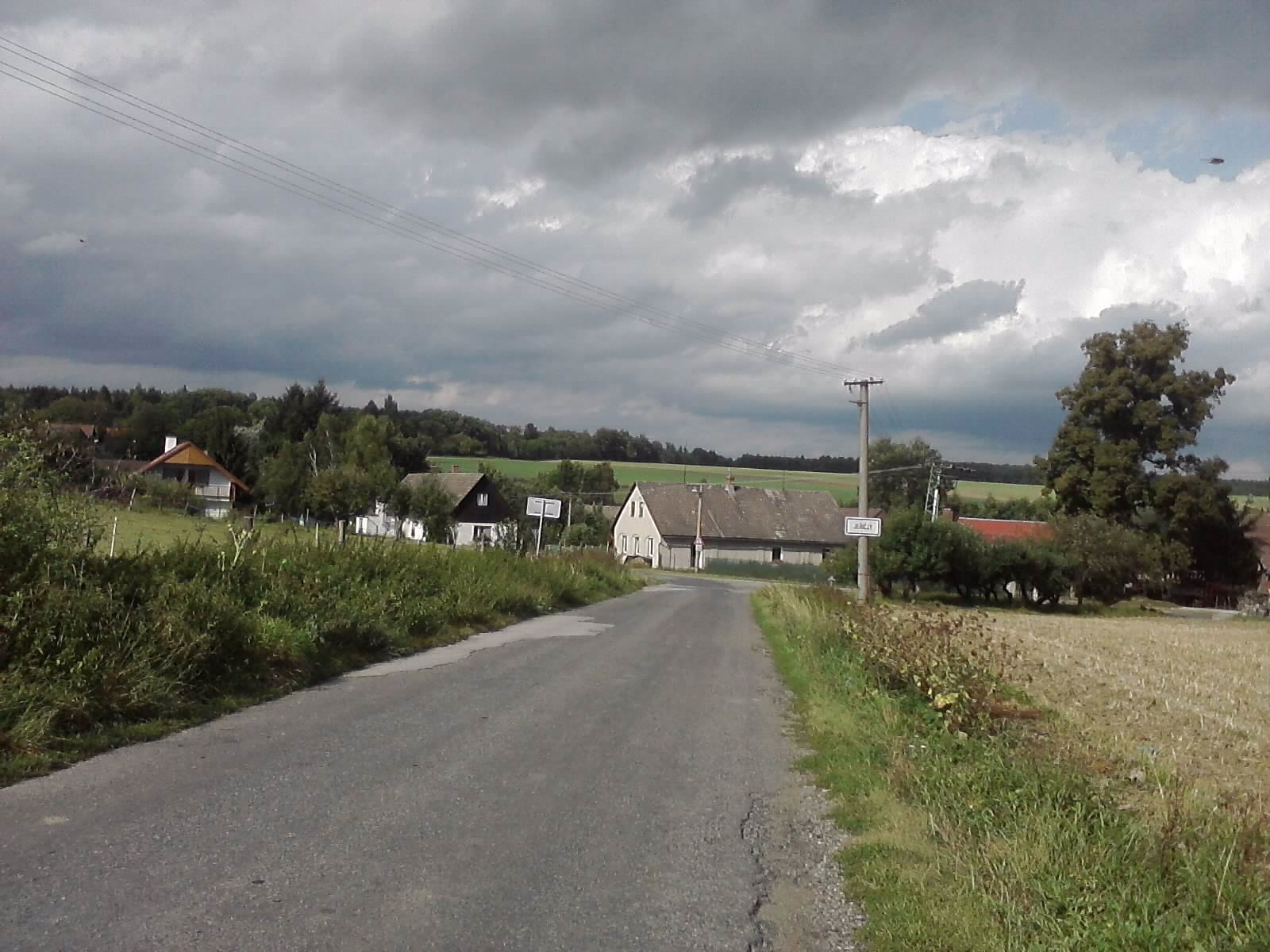 Village Jeřičky